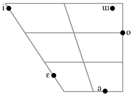 IPA vowel chart for Tukang Besi.